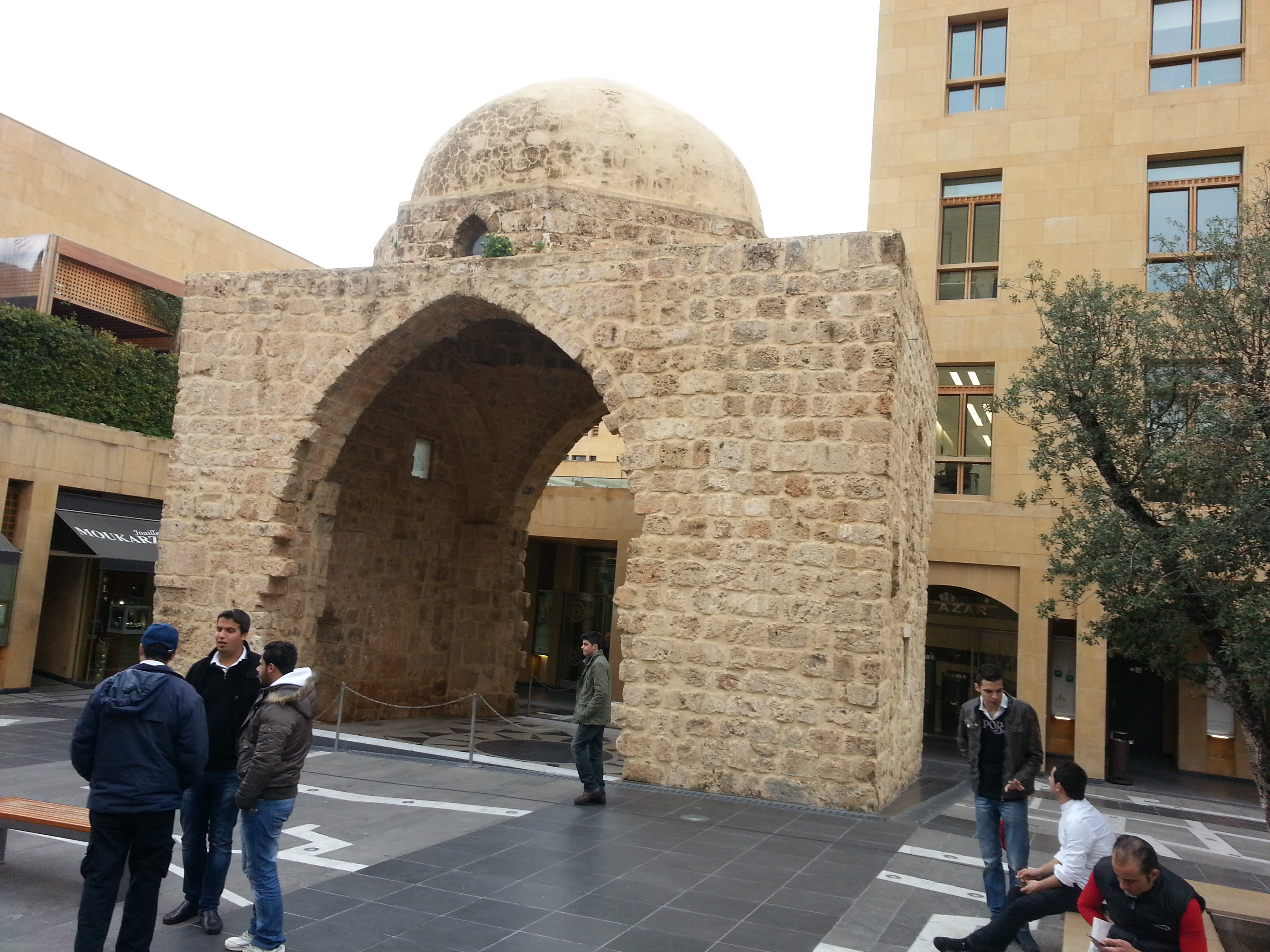 Imam Abd al-Rahman al-Awza'i Zawiya in Beirut's central district